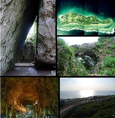 Nanjo Montage